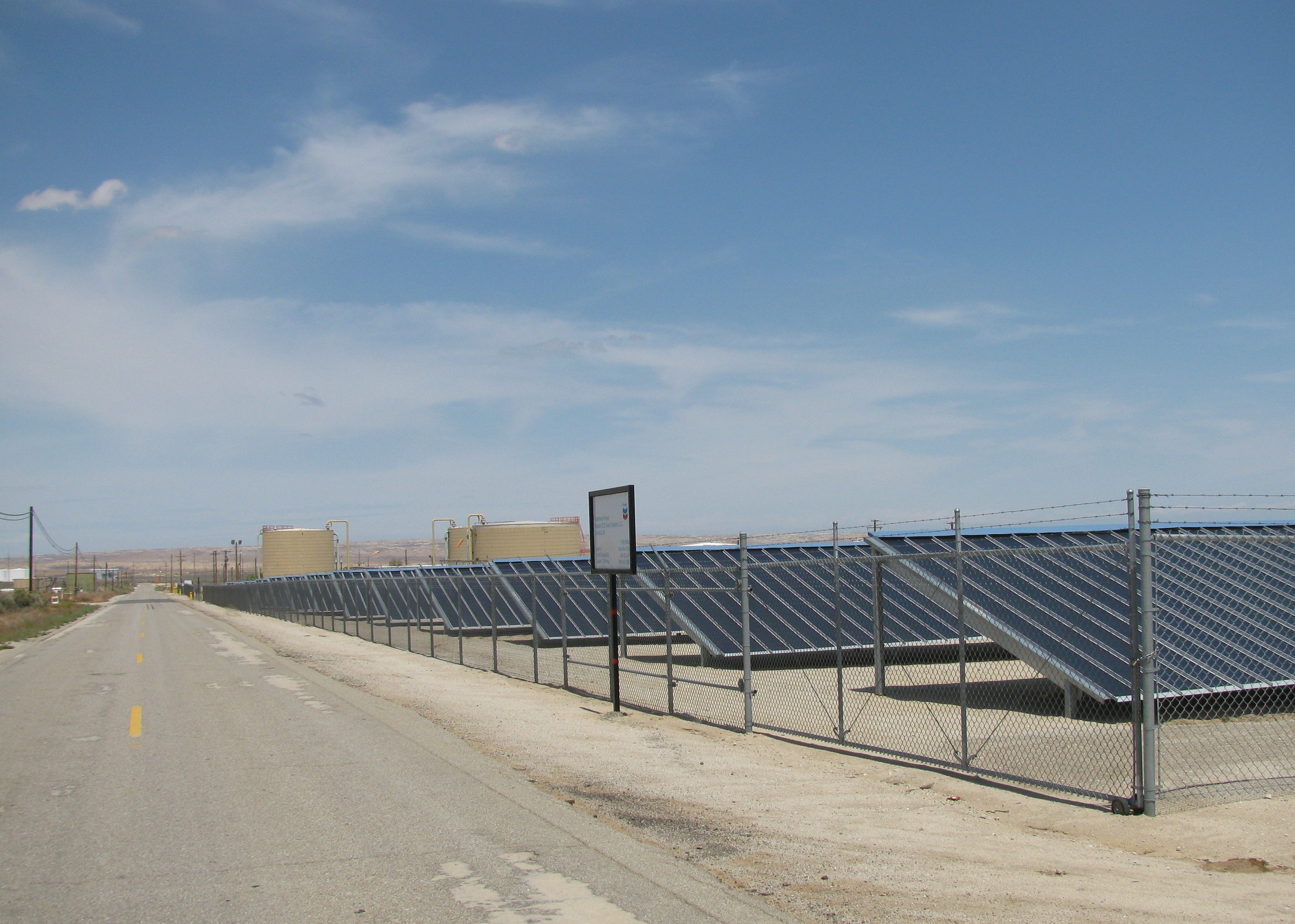 Chevron's Solarmine solar photovoltaic project — in Fellows, western Kern County, California. photo by self, May 3 (?) 2009